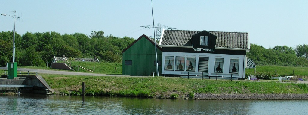 Huis aan de oever in Westeinde, Anna Paulowna. House at the waterway in Westeinde, Anna Paulowna.